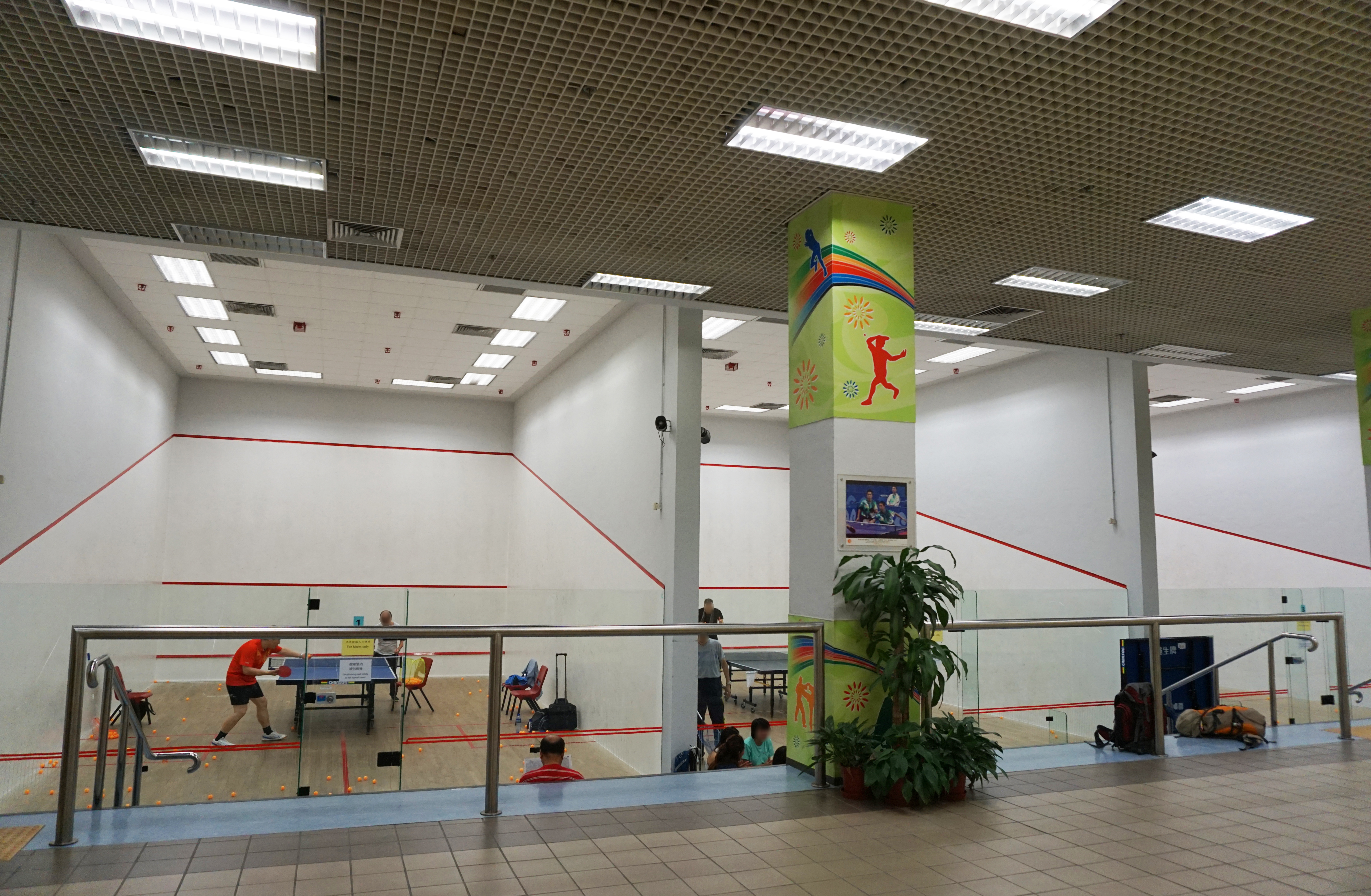 Sun Yat Sen Memorial Park Sports Centre in Sai Ying Pun, Hong Kong.